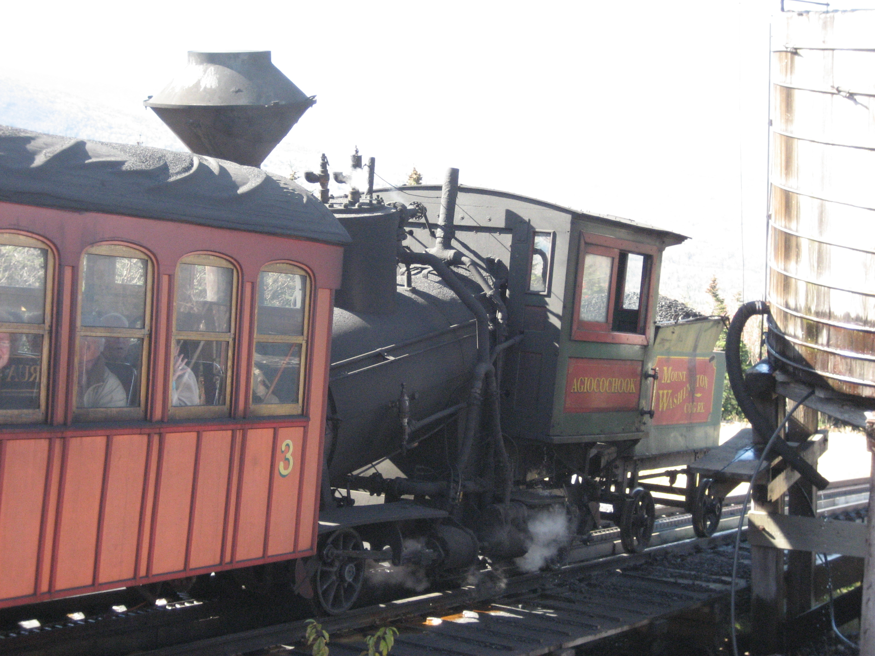 Locomotive Agiocochook of the Mount Washington Cog Railway Author: Dan Crow Date: October 9th. 2006